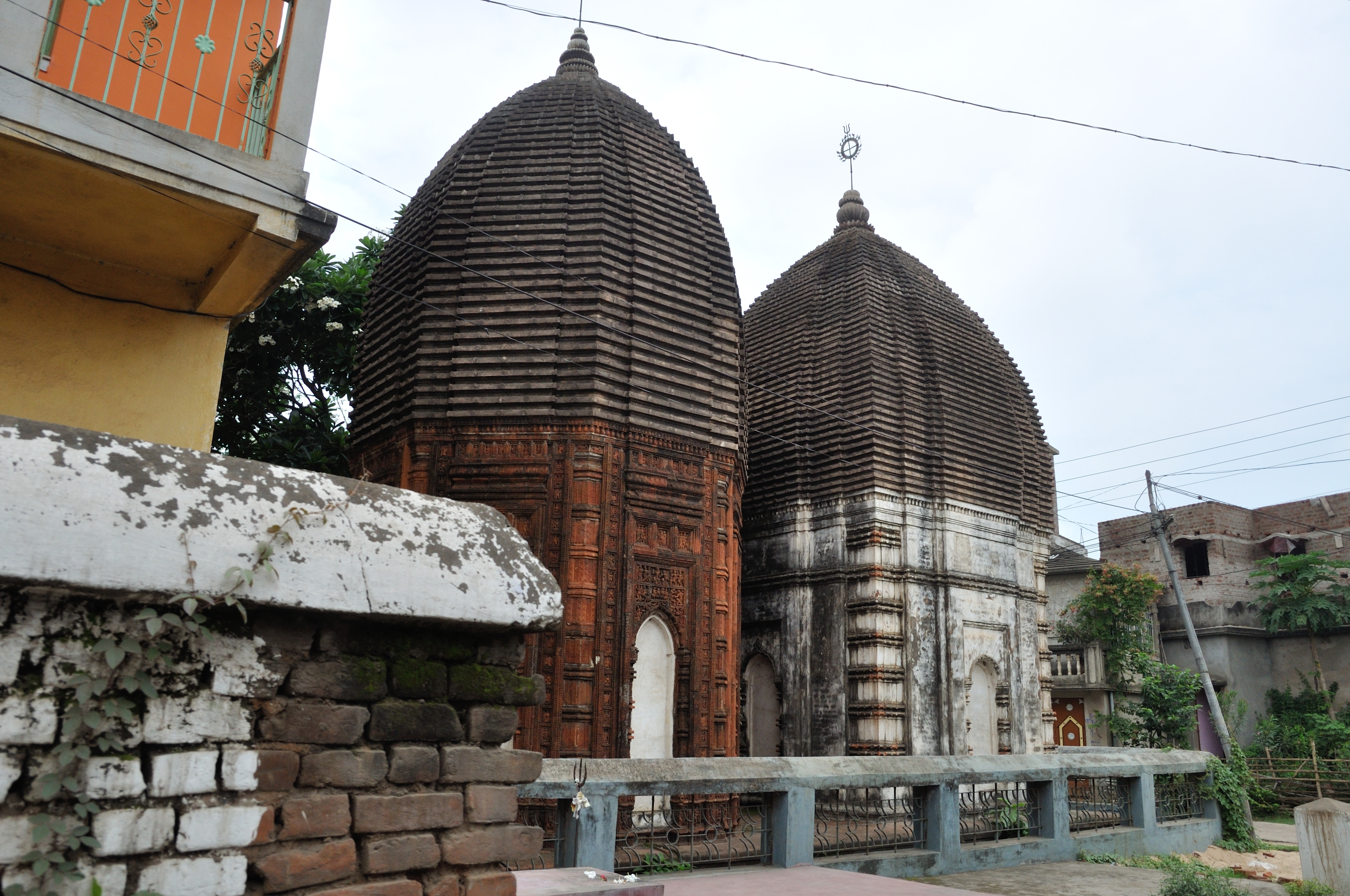 Photographed in Birbhum, West Bengal. This photograph has been uploaded during the 'Wiki Loves Monuments 2014' from India.